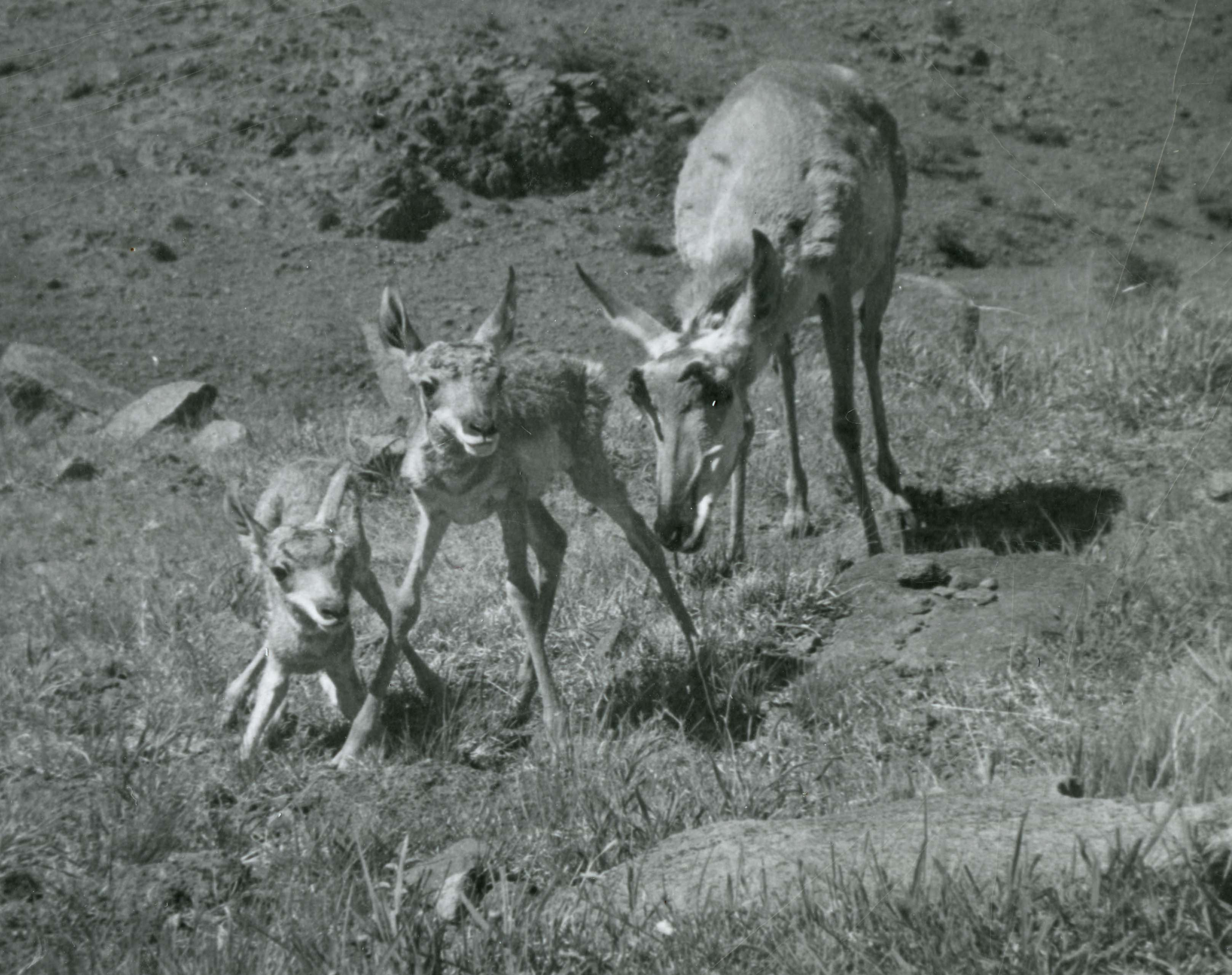 Photograph documents observations of pronghorn in Texas by Helmut Buechner in 1947.